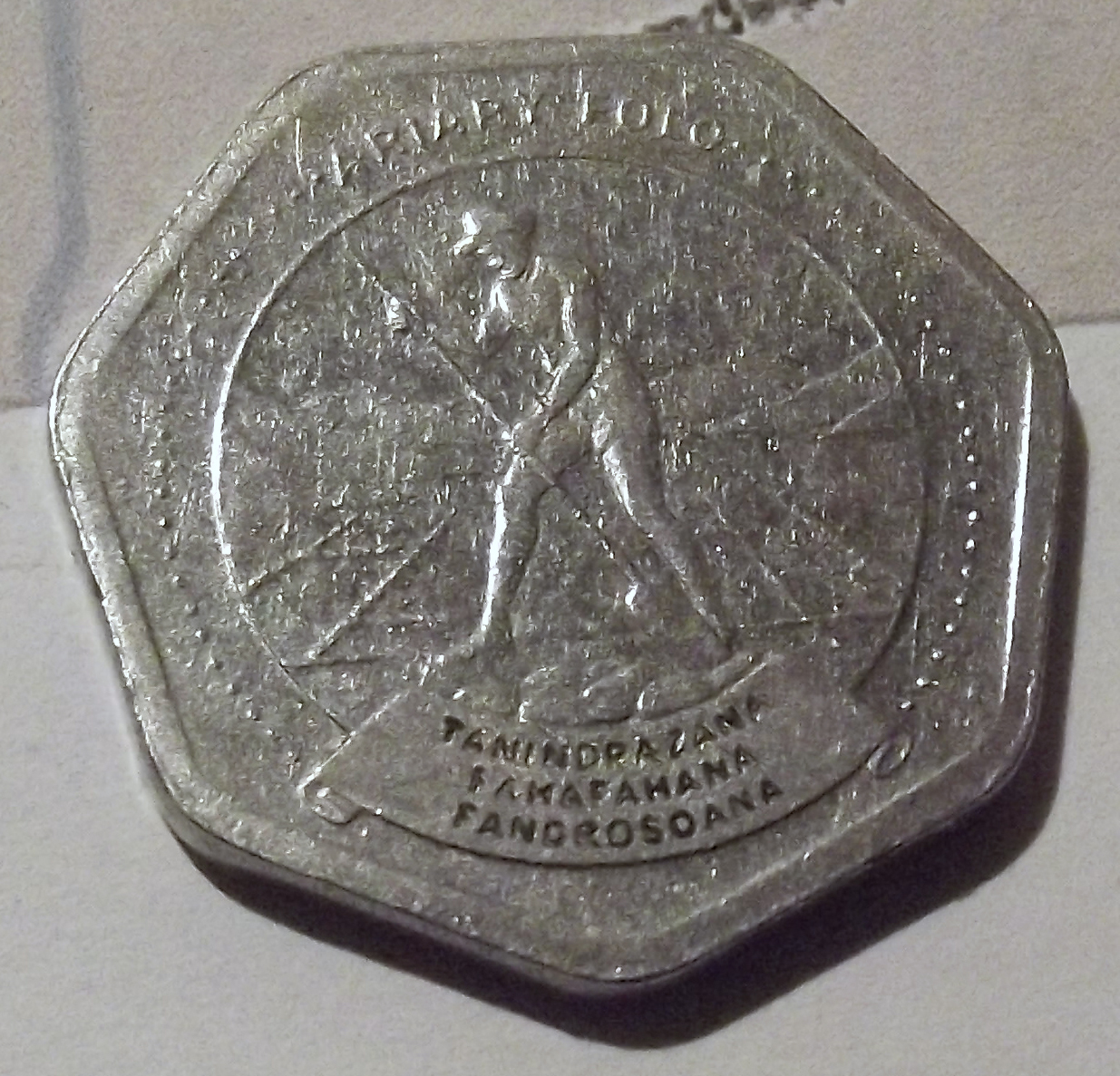 10 Madagascar Arial coin. With the big inflation and the introduction of banknotes of big nominal value, the coin has nearly no value and is practicaly not used any more. The motive is the building of a railway on the tail side.